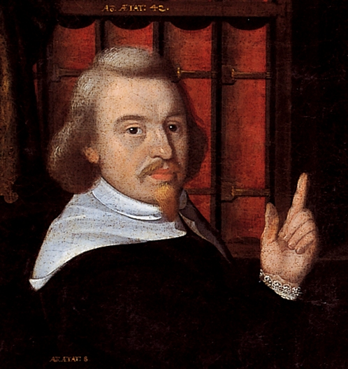 Andreas Rehyer